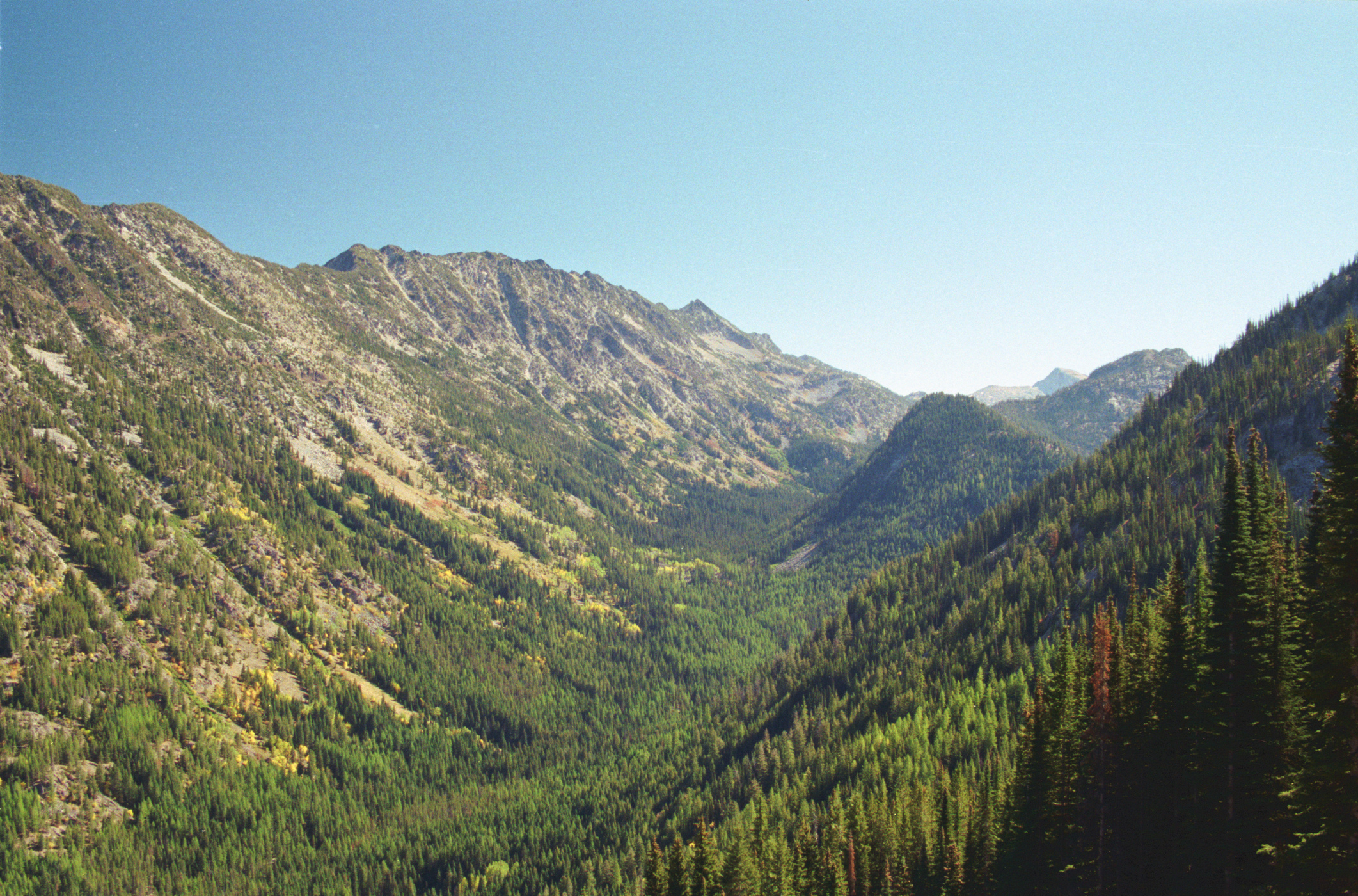 The valley of the Lostine River in the Eagle Cap Wilderness, Wallowa Mountains, Oregon, USA